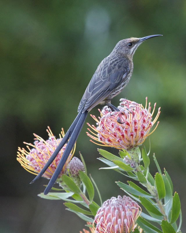 Cape Sugarbird Promerops cafer Moore's End, Stellenboch, South Africa 4 October 2009 690V4814.jpg